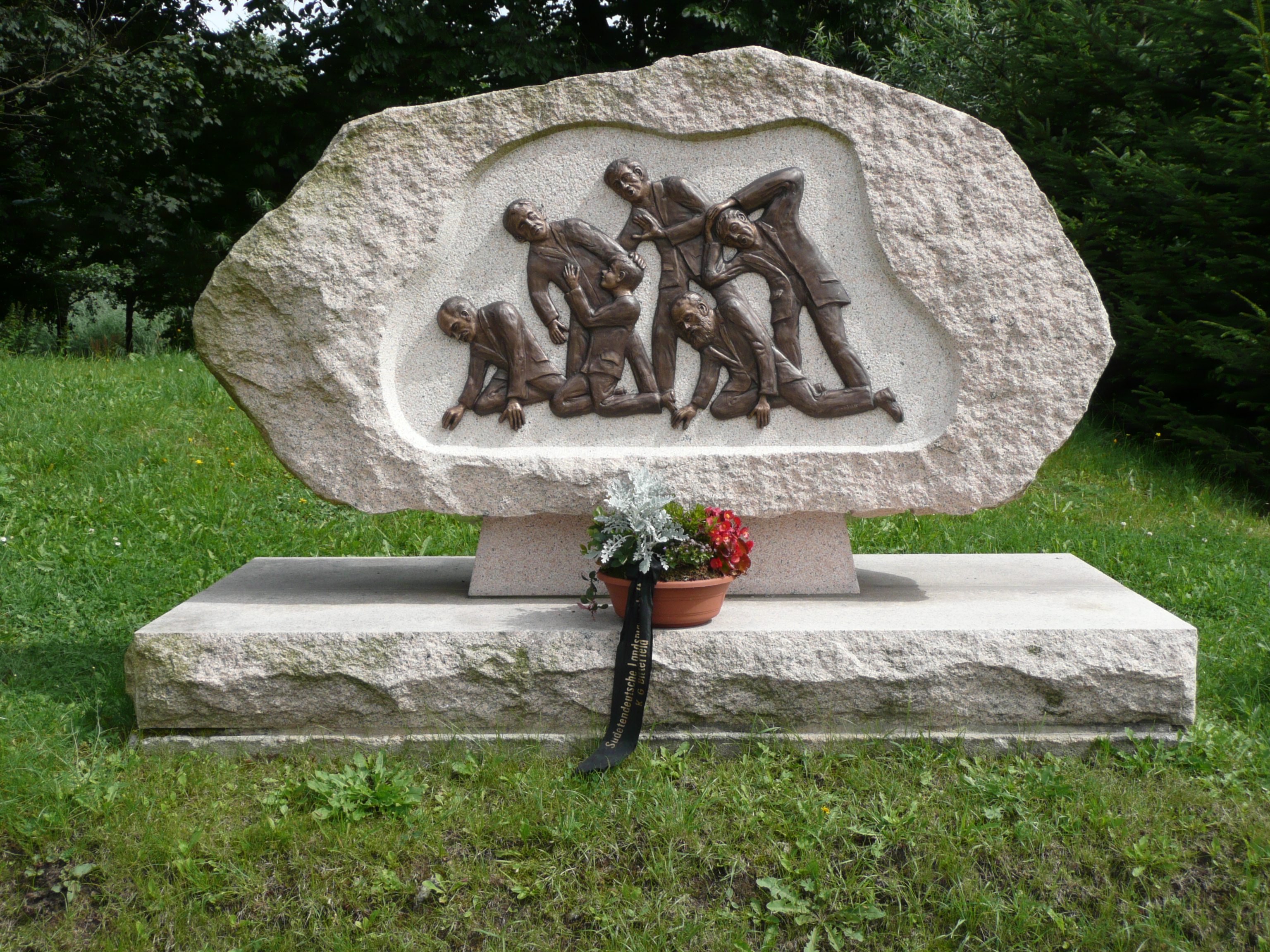 Deutschneudorf: This image shows the memorial for the victims died violently during Expulsion of Germans from Komototau (Chomutov) on the 9ht june 1945.